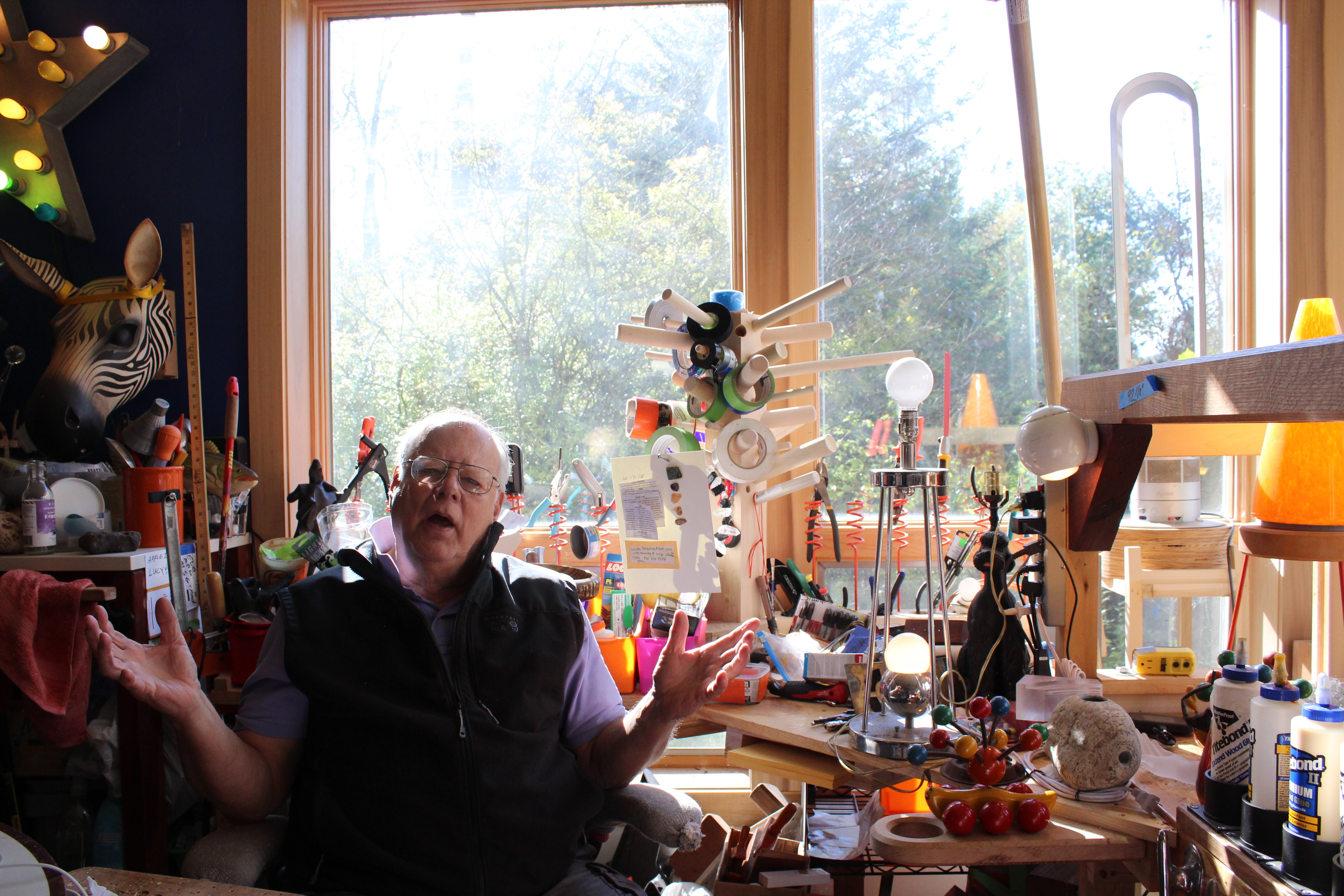 Fred in his Corning NY home talking about his artwork. Photo taken October 2018